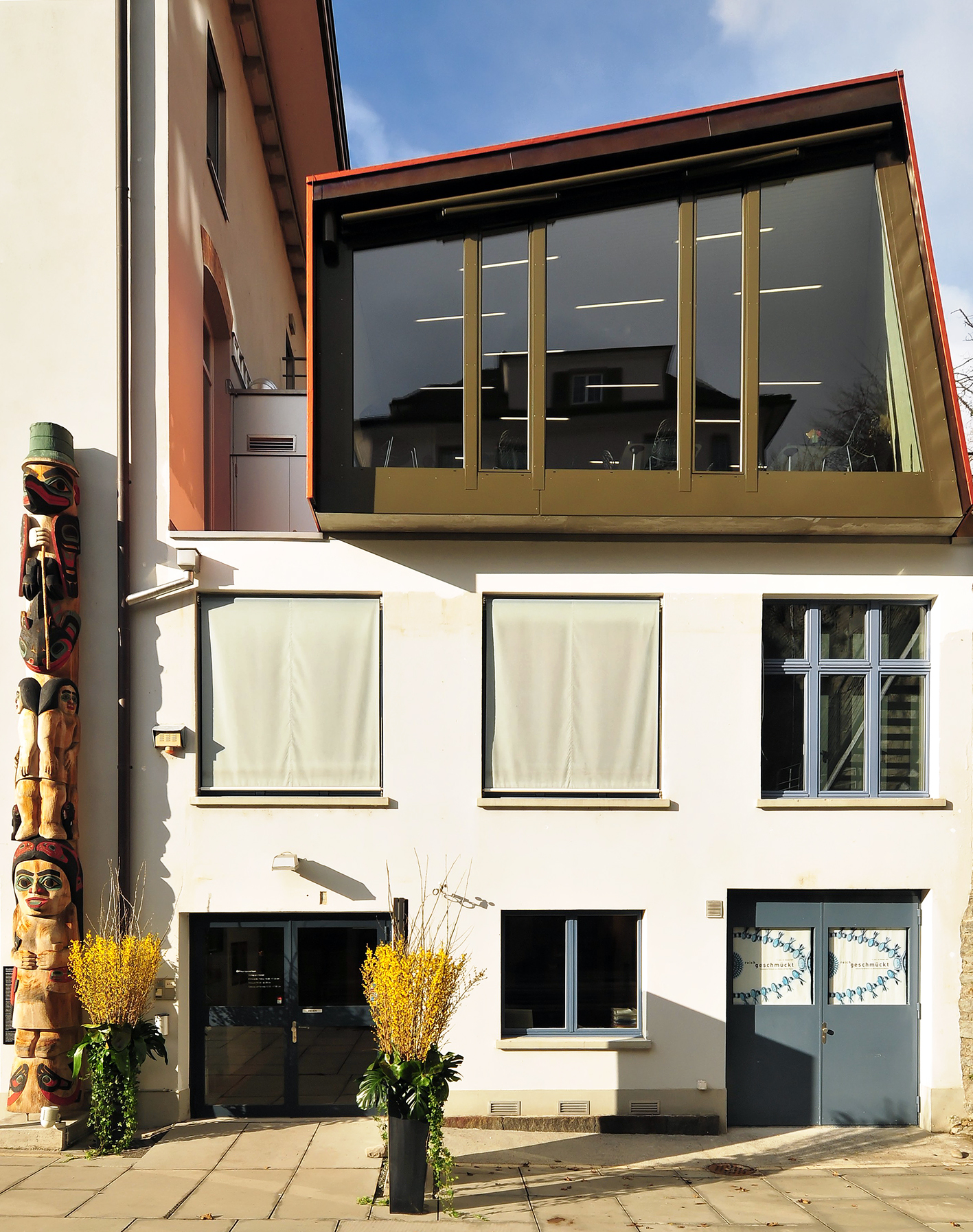 Entrance area of the ethnographic museum "NONAM, Nordamerika Native Museum - Indianer und Inuit Kulturen" in Zürich.